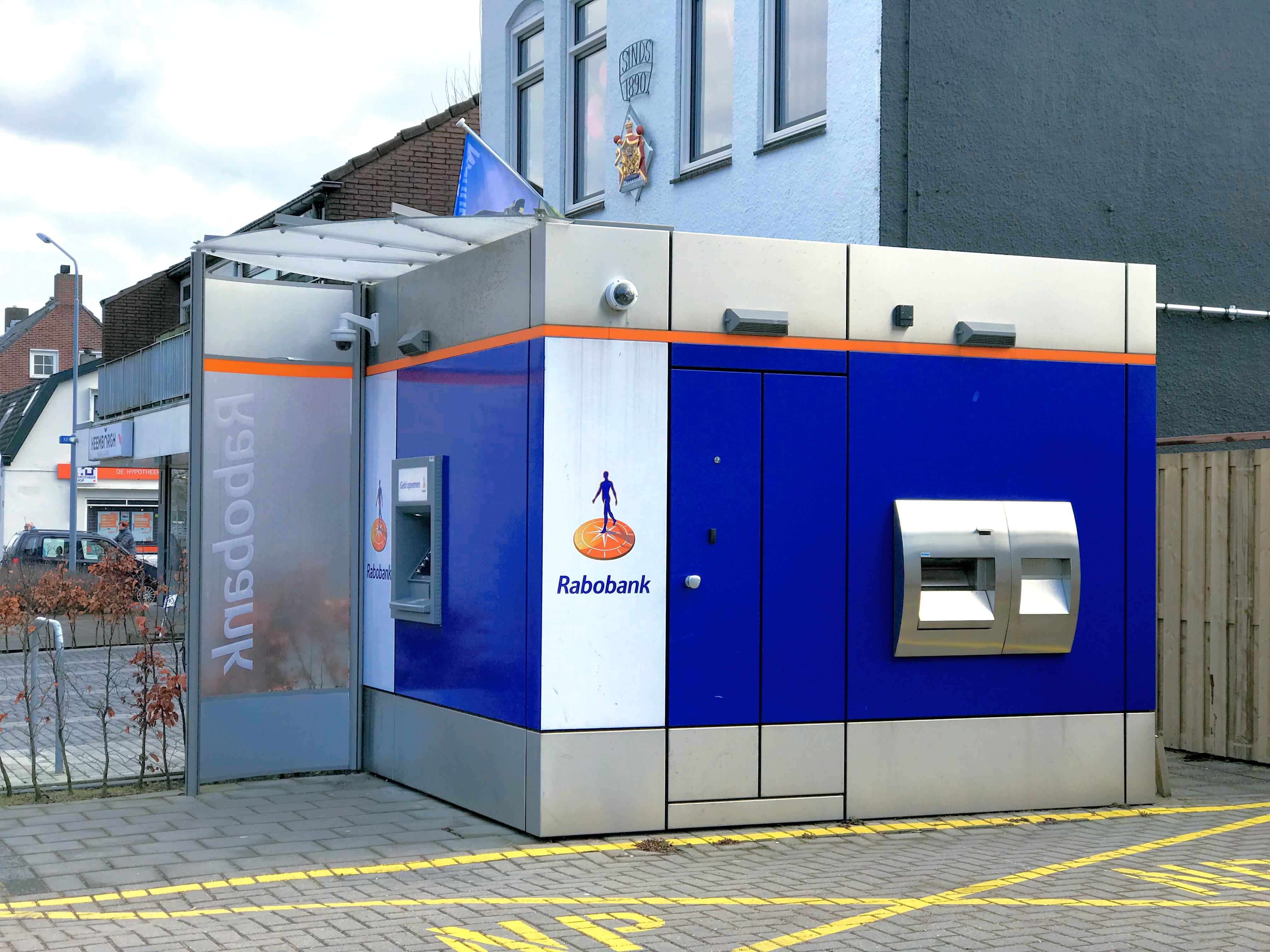 Rabobank pinautomaat